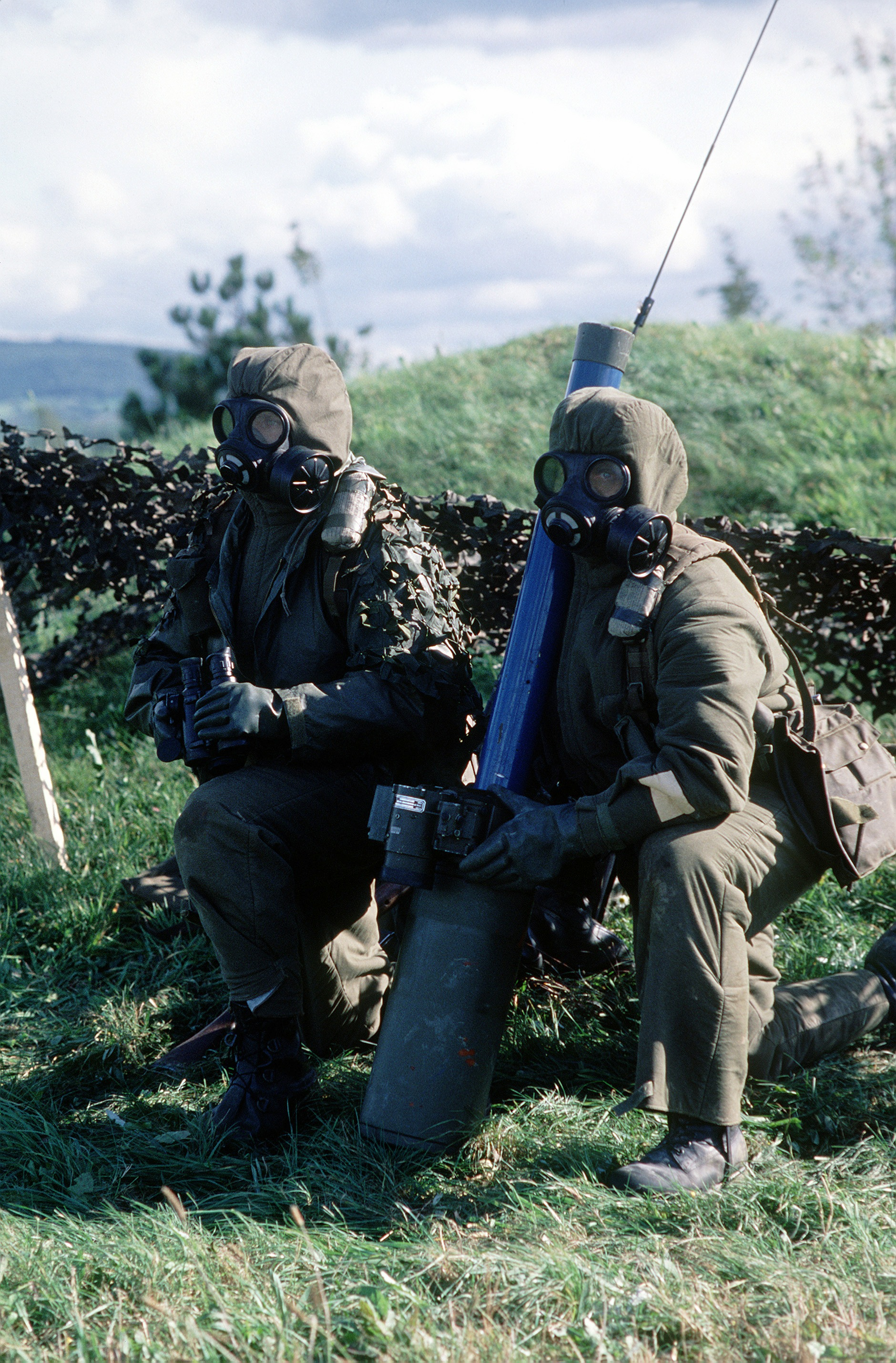 Operation / Series: CORNET PHASER Gunners Dave Archer and Paul Van Helvert, both with the Canadian 129th Anti-Aircraft Defense Battery, stand by at a Blowpipe anti-aircraft guided missile system on the edge of the base during exercise Cornet Phaser, a NATO rapid deployment exercise conducted under simulated wartime conditions. The men are wearing nuclear, chemical and biological protective gear (including C3 gas mask).